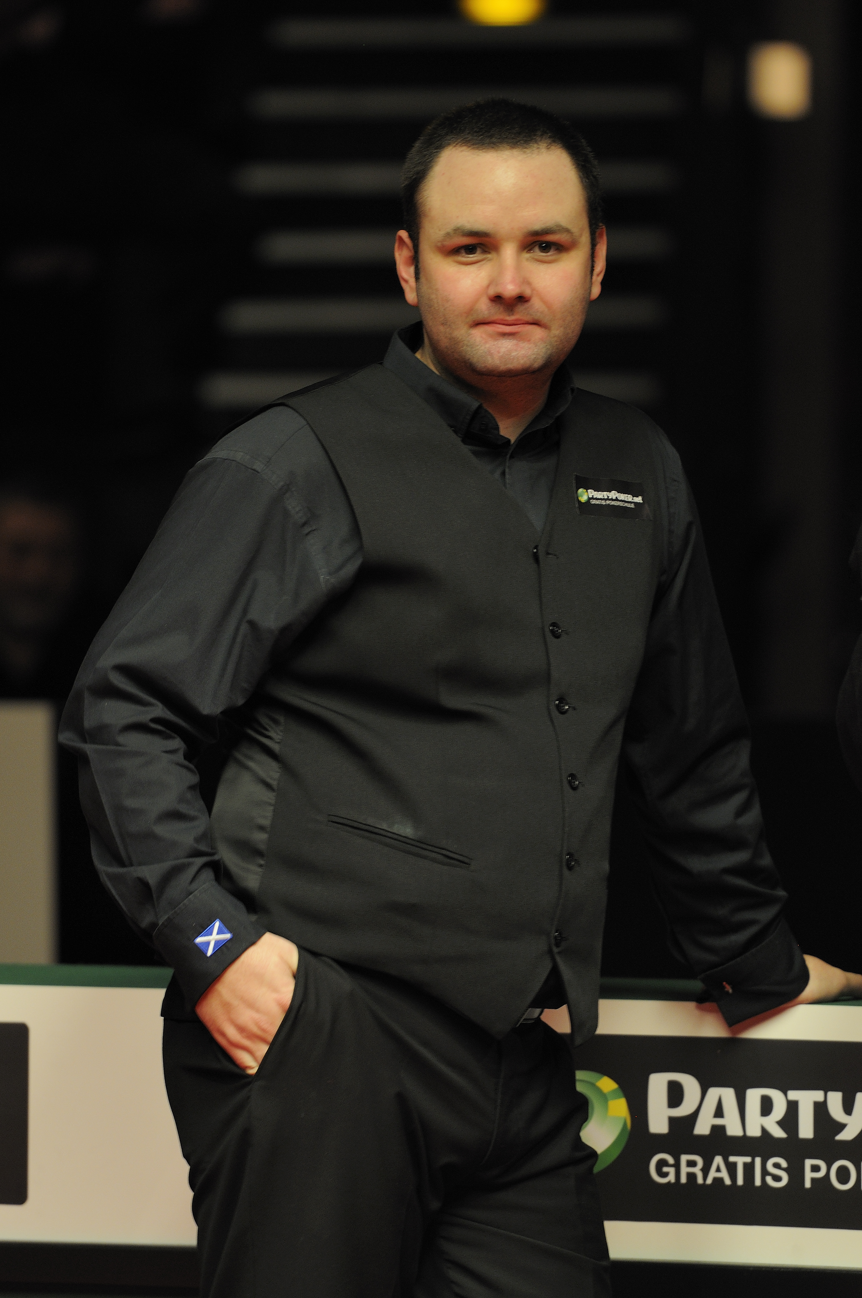 Picture taken in Berlin during the Snooker German Masters in 2011. Stephen Maguire.